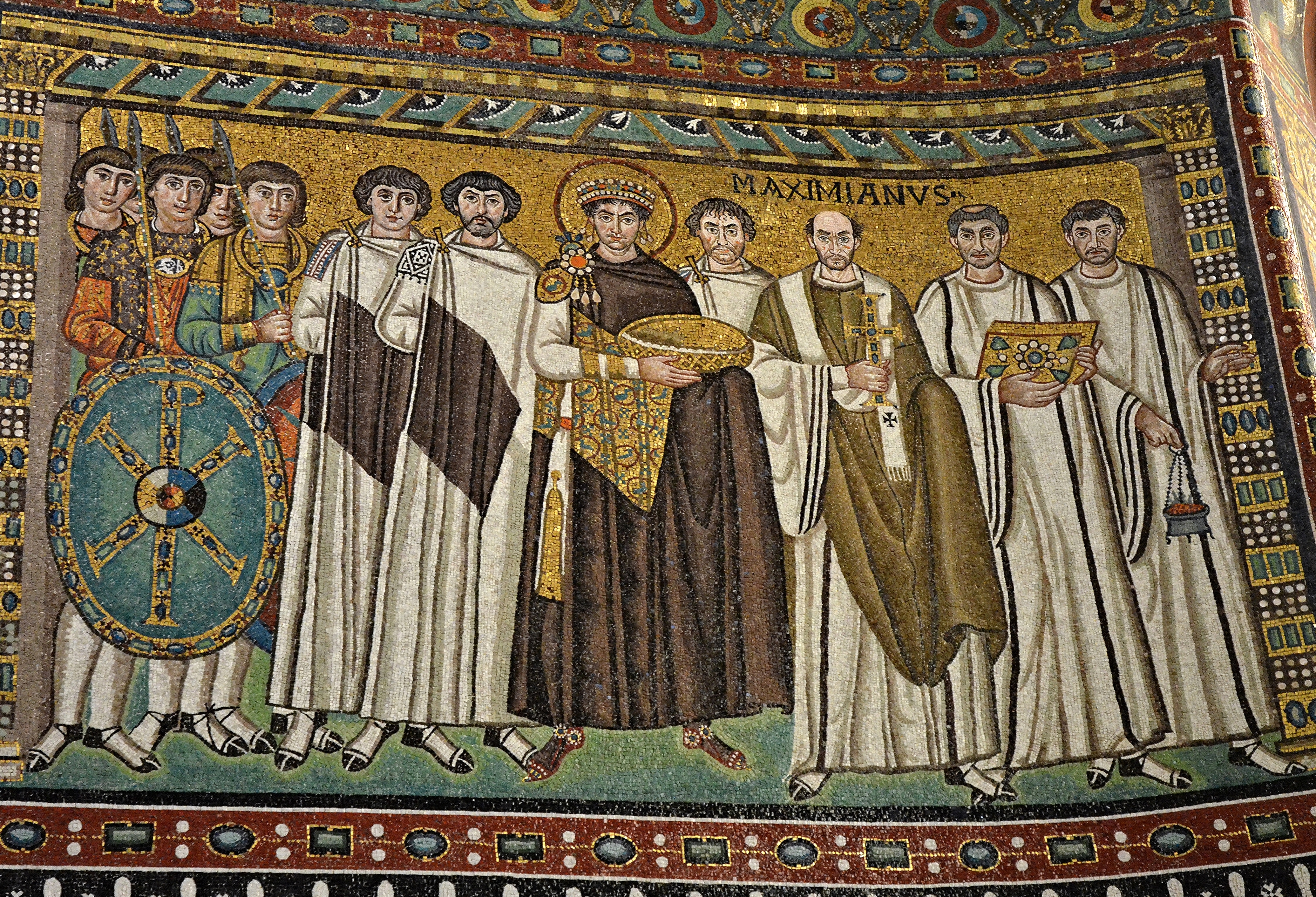 The mosaic of Emperor Justinian and his retinue, Basilica of San Vitale, Ravenna, Italy